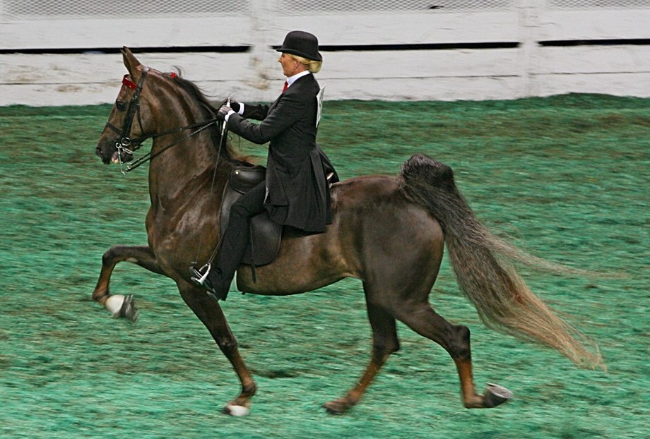 Photo by Heather Abounader